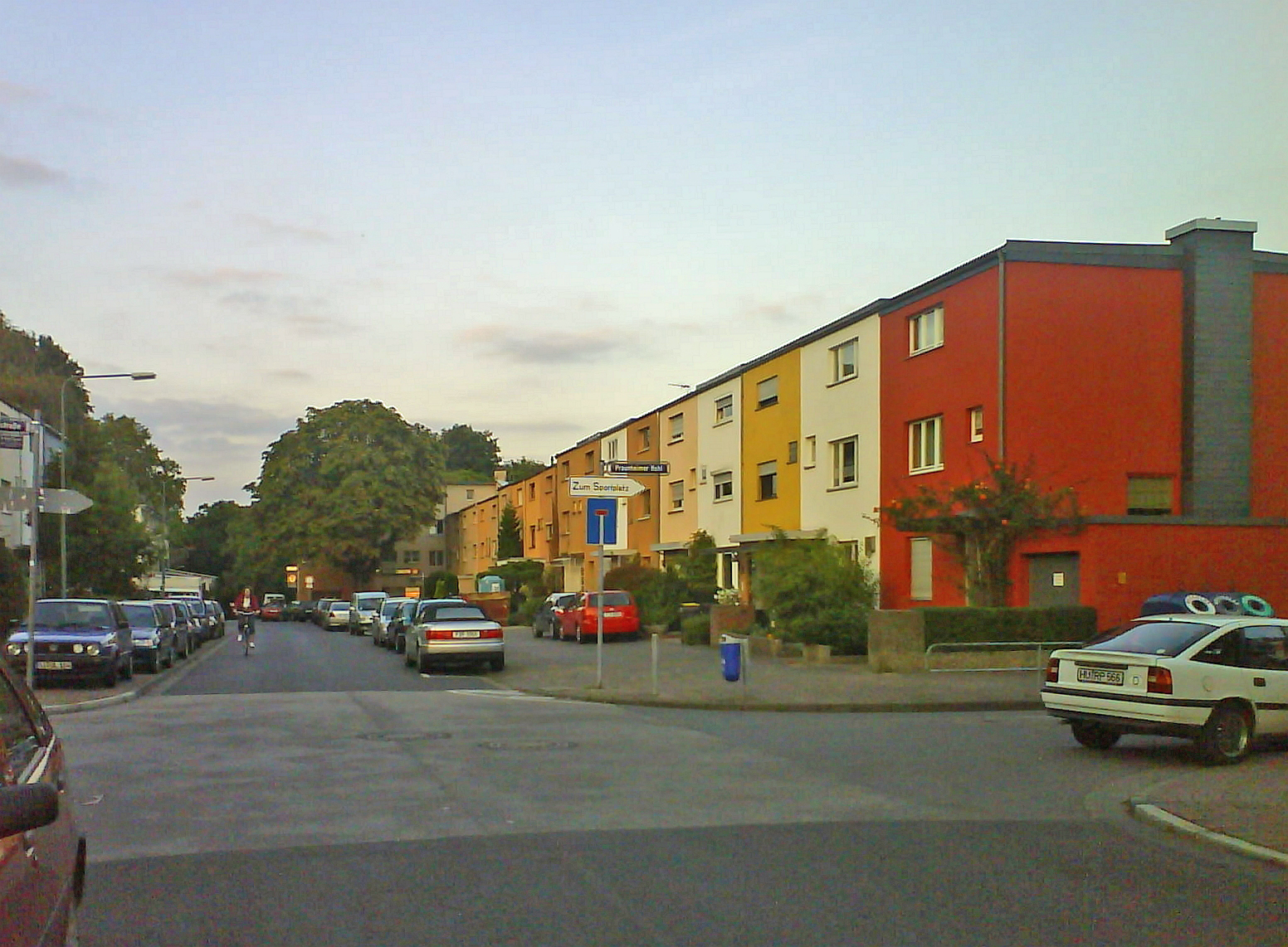 Crossing "Am Ebelfeld"/"Eberstadtstrasse"/"Praunheimer Hohl" (Siedlung Praunheim, Frankfurt am Main, Germany)